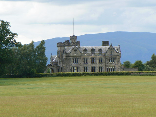 Kinnaird House. This mansion house dating from 1897 was built by Robert Orr who died in 1906 but his descendants maintained ownership until the late 1930's. During the WW2 it became the Headquarters of the Polish Army in Scotland and after the war it came under the control of the Secretary of State for Scotland. In 1977, John Russell bought the house and began restoring the house and grounds to something of their former glory.